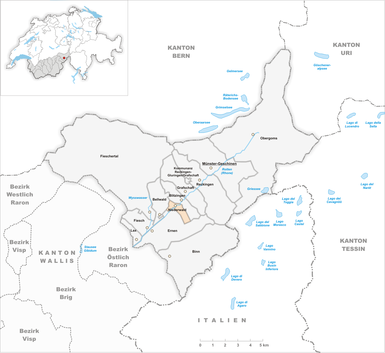 Municipality Niederwald